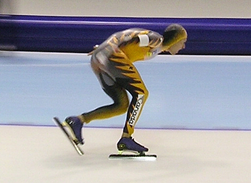 Steven Elm (CAN) in action at the WCh Allround in Thialf (Heerenveen, The Netherlands)